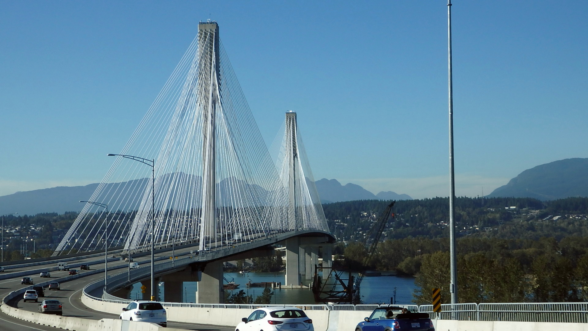 The new Port Mann Bridge in Vancouver over the Fraser River